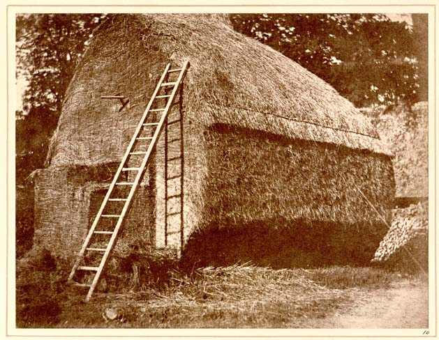 William Henry Fox Talbot (1800-1877) The Haystack From The Pencil of Nature, Part 2 (published 29 January 1845)